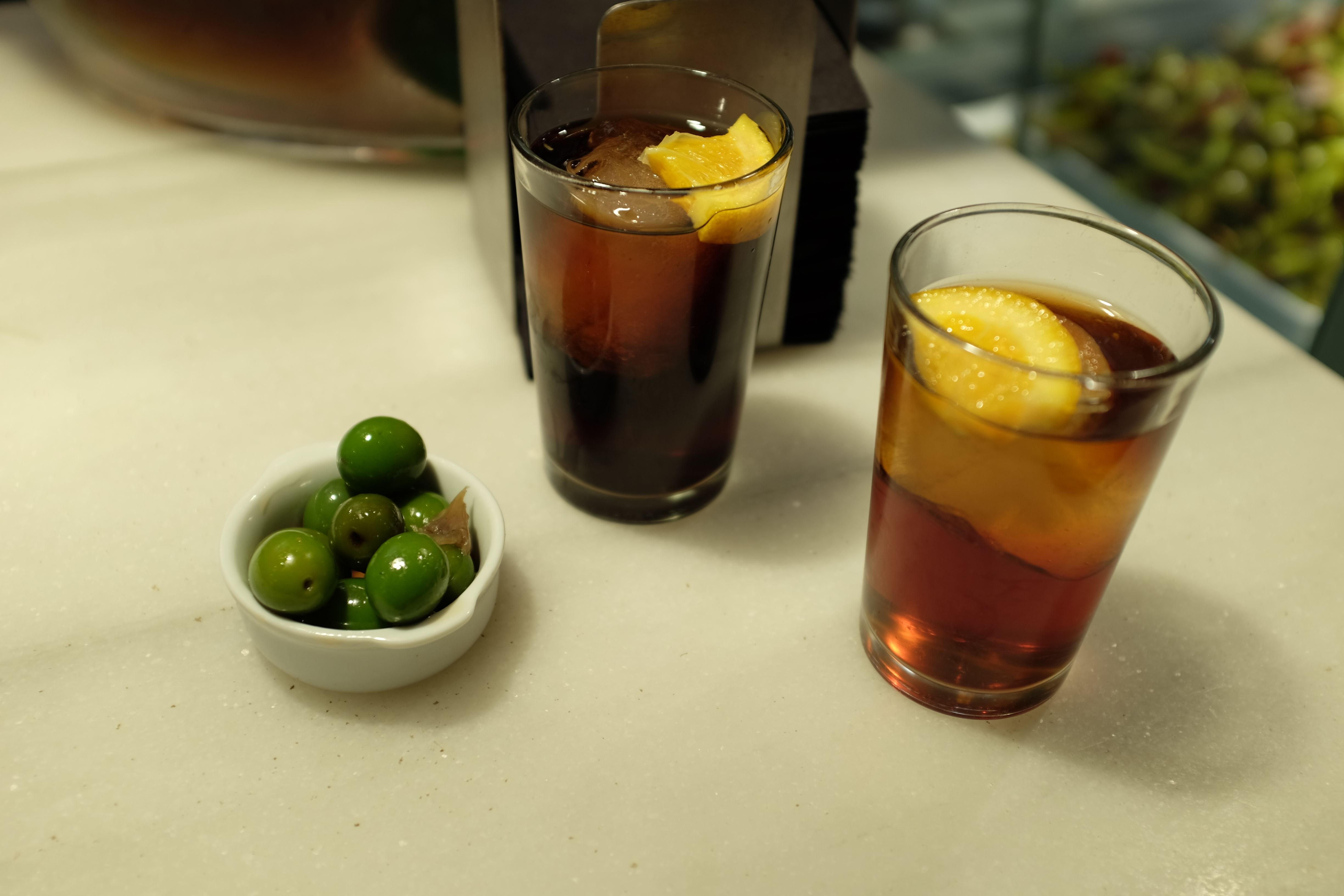 Vermout on tap. These were from Rioja and Reus, served on ice with lemon.